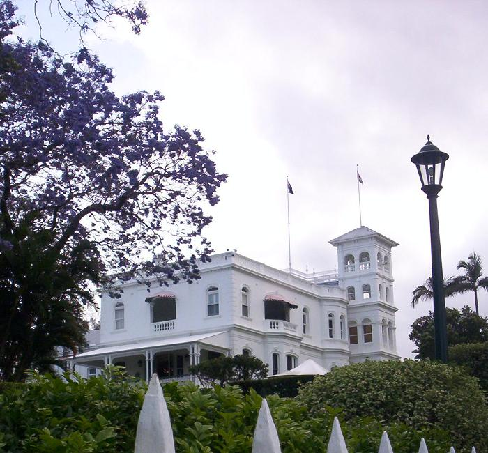 Queensland Government House at Bardon ( this photograph was taken by Figaro )